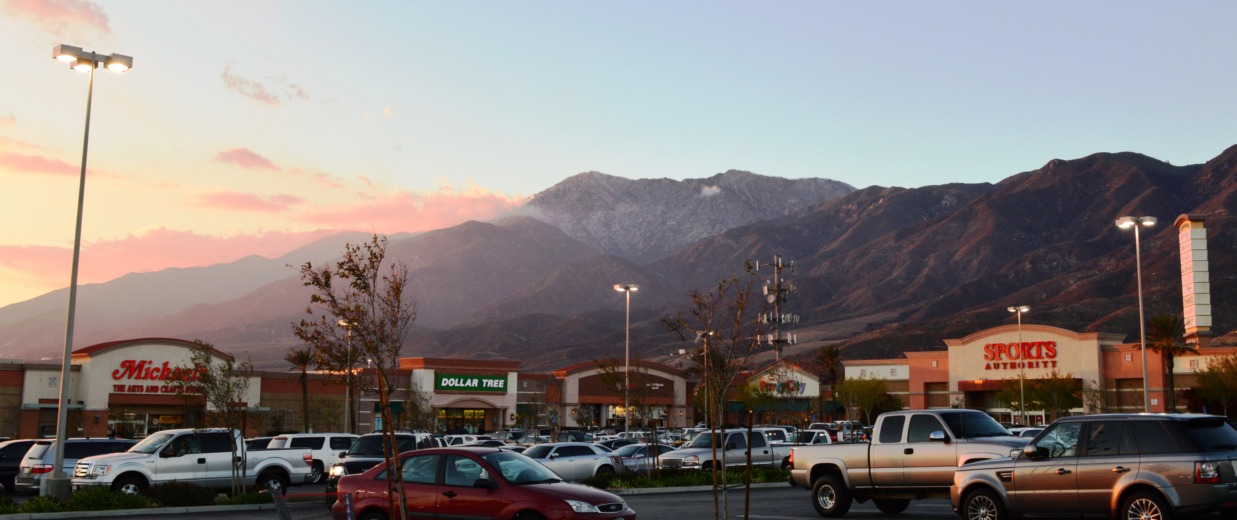 Falcon Ridge Town Center off I-15 at Summit Avenue in Fontana, California, U.S.A., with the San Gabriel Mountains in the background. The large vertical sign on right is visible from I-15.